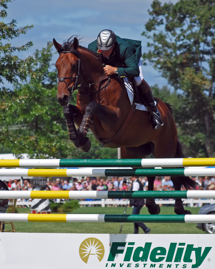 Kevin Babington aboard the 1997 bay gelding Caracas 49 by Carthago Z out of a Silvester mare. Fidelity Jumper Classic.